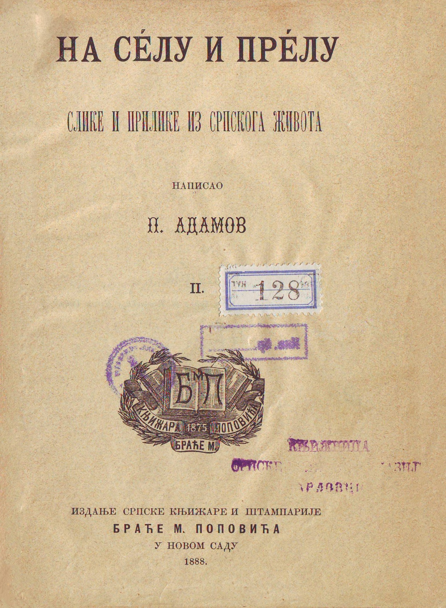 Cover of part two of the book Na sélu i prélu slike i prilike iz srpskoga života (1888) by Pavle Marković Adamov. Srpski (latinica): Naslovna strana drugog dela knjige Na sélu i prélu slike i prilike iz srpskoga života (1888) Pavla Markovića Adamova.